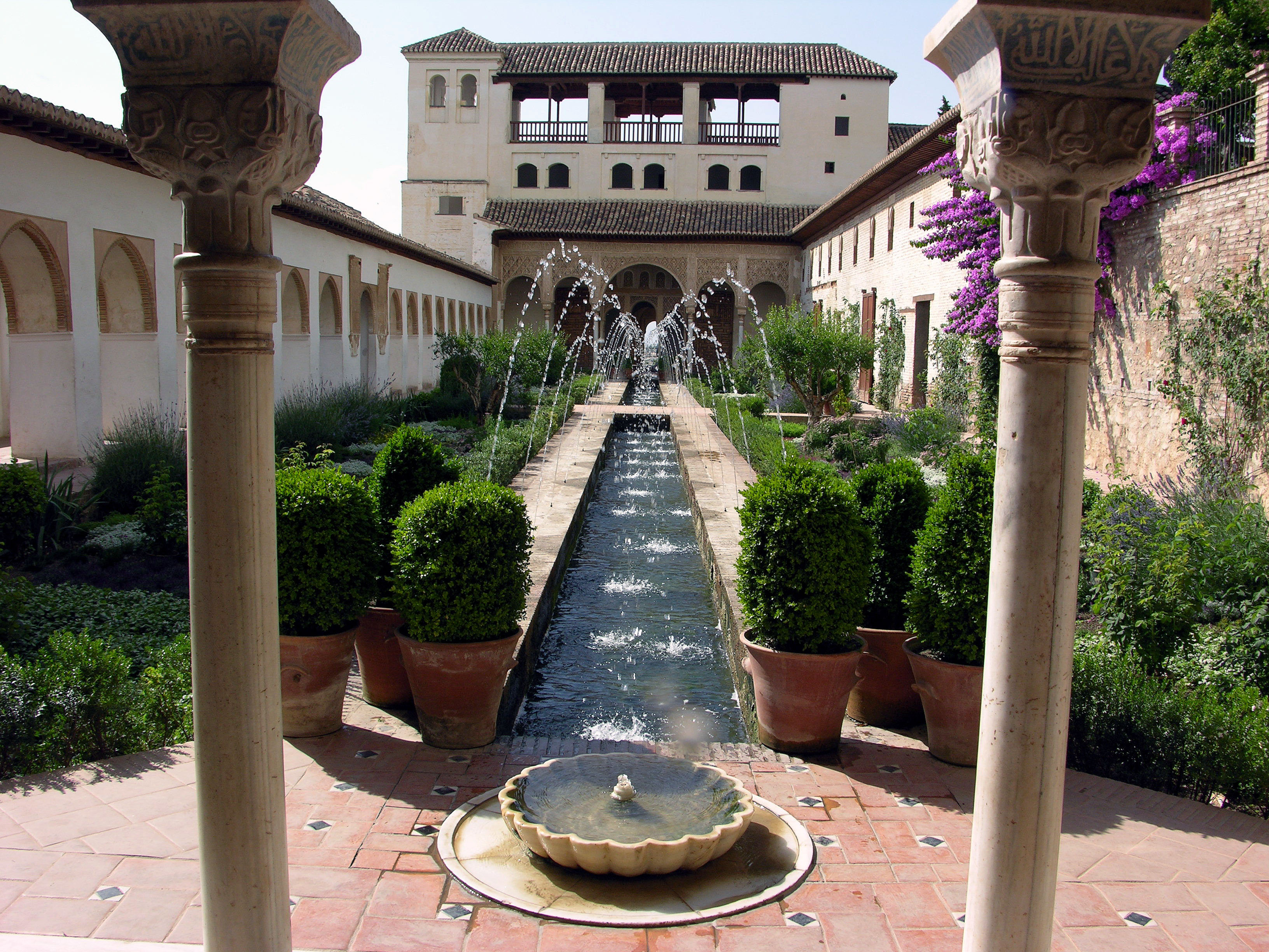 The gardens of Genaralife, Alhambra, Grenada, Spain